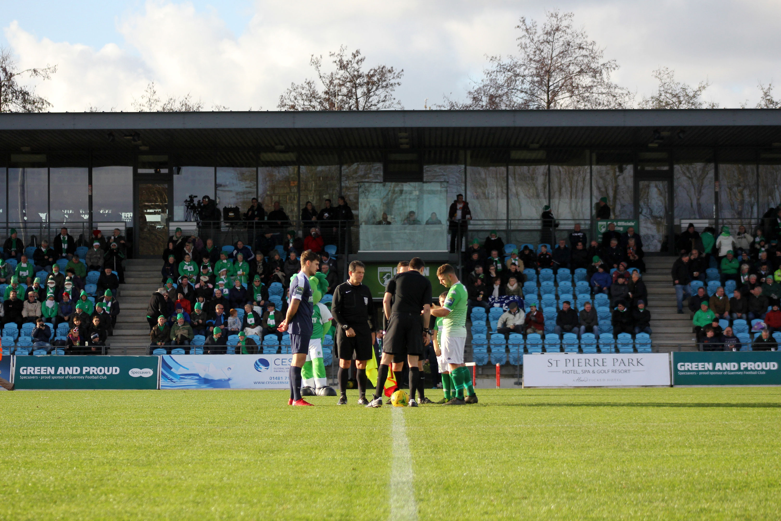 Joe Hicks (left) of Walton Casuals and Craig Young (right) of Guernsey shake hands before the Bostik South Division match at Footes Lane Stadium, Saint Peter Port, Guernsey on Saturday 16 December 2017.